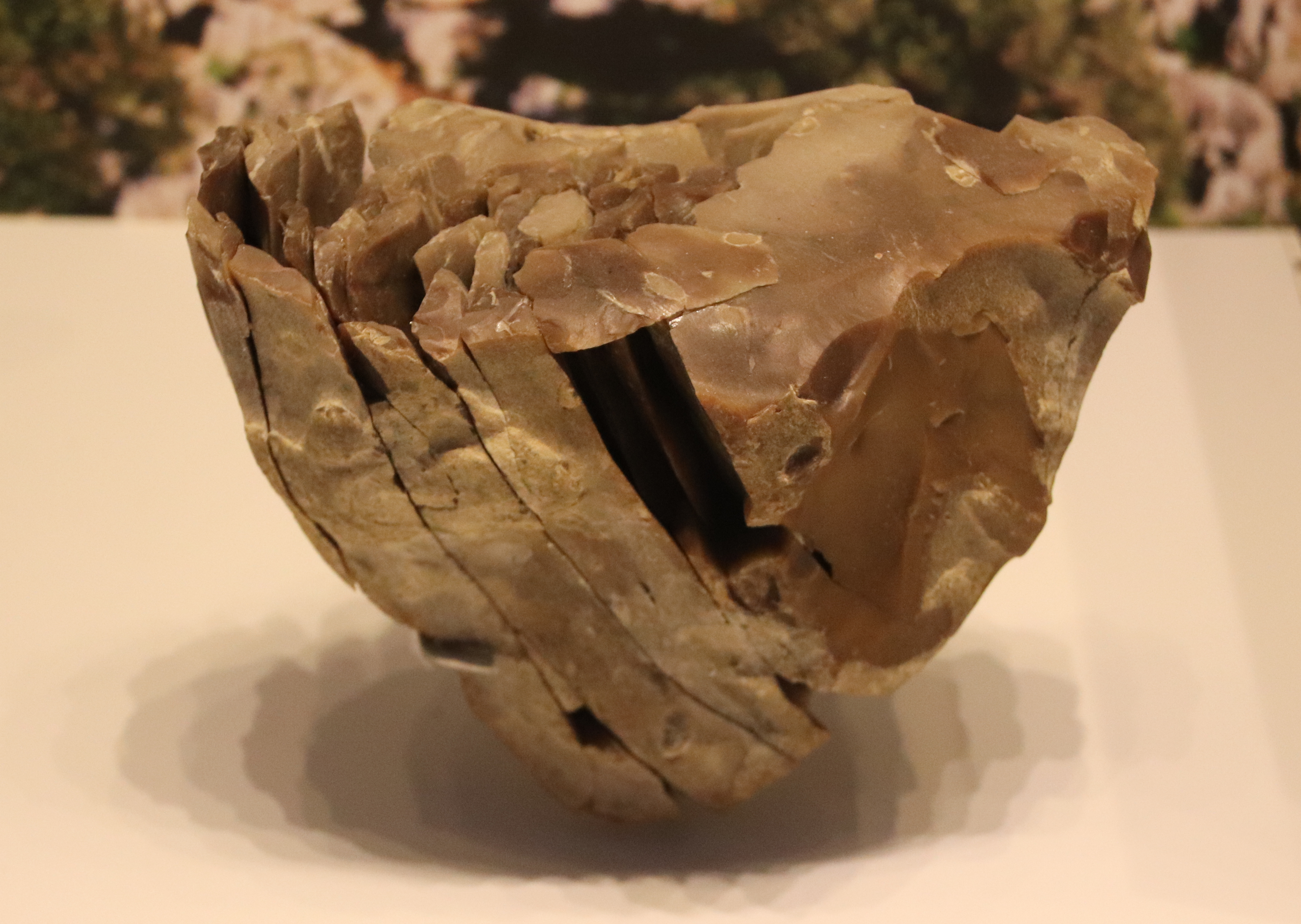 Stone Core for Making Blades - Boqer Tachtit, Negev, circa 40000 BP (detail)